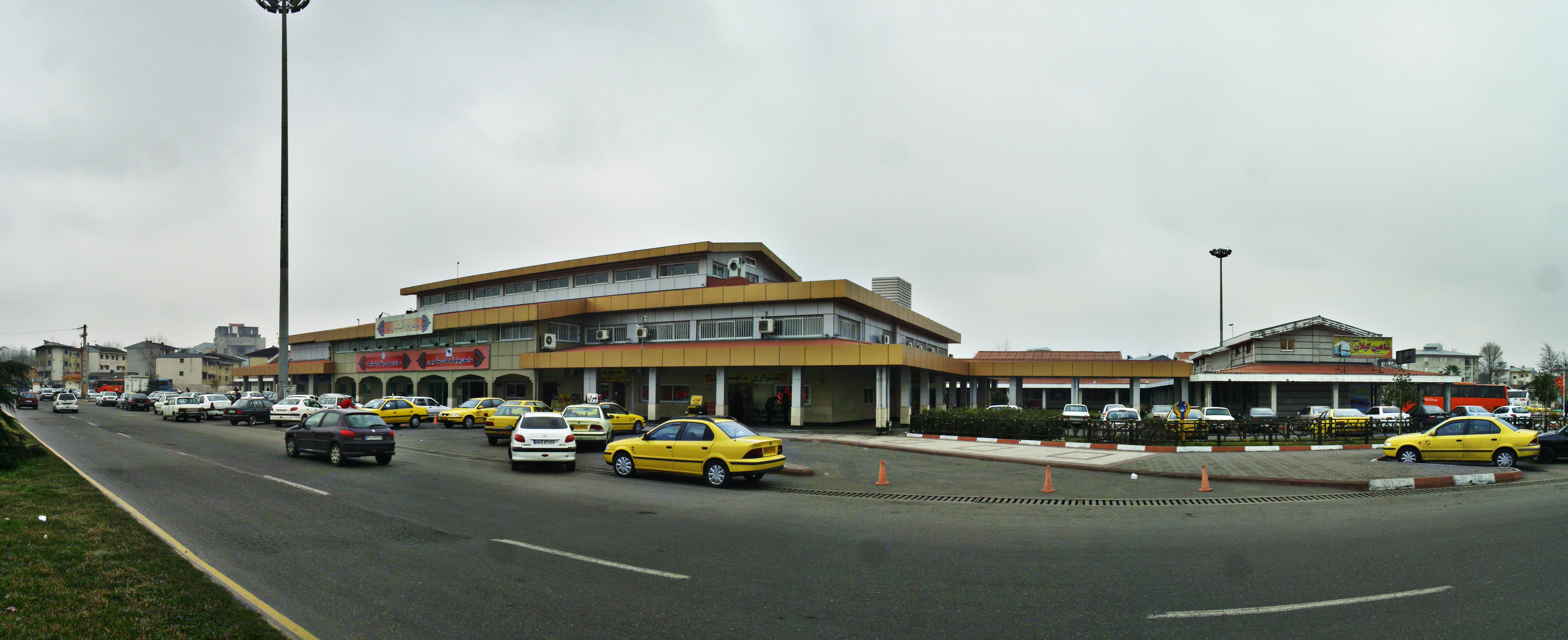 panorama of Rasht terminal in Gil Sq